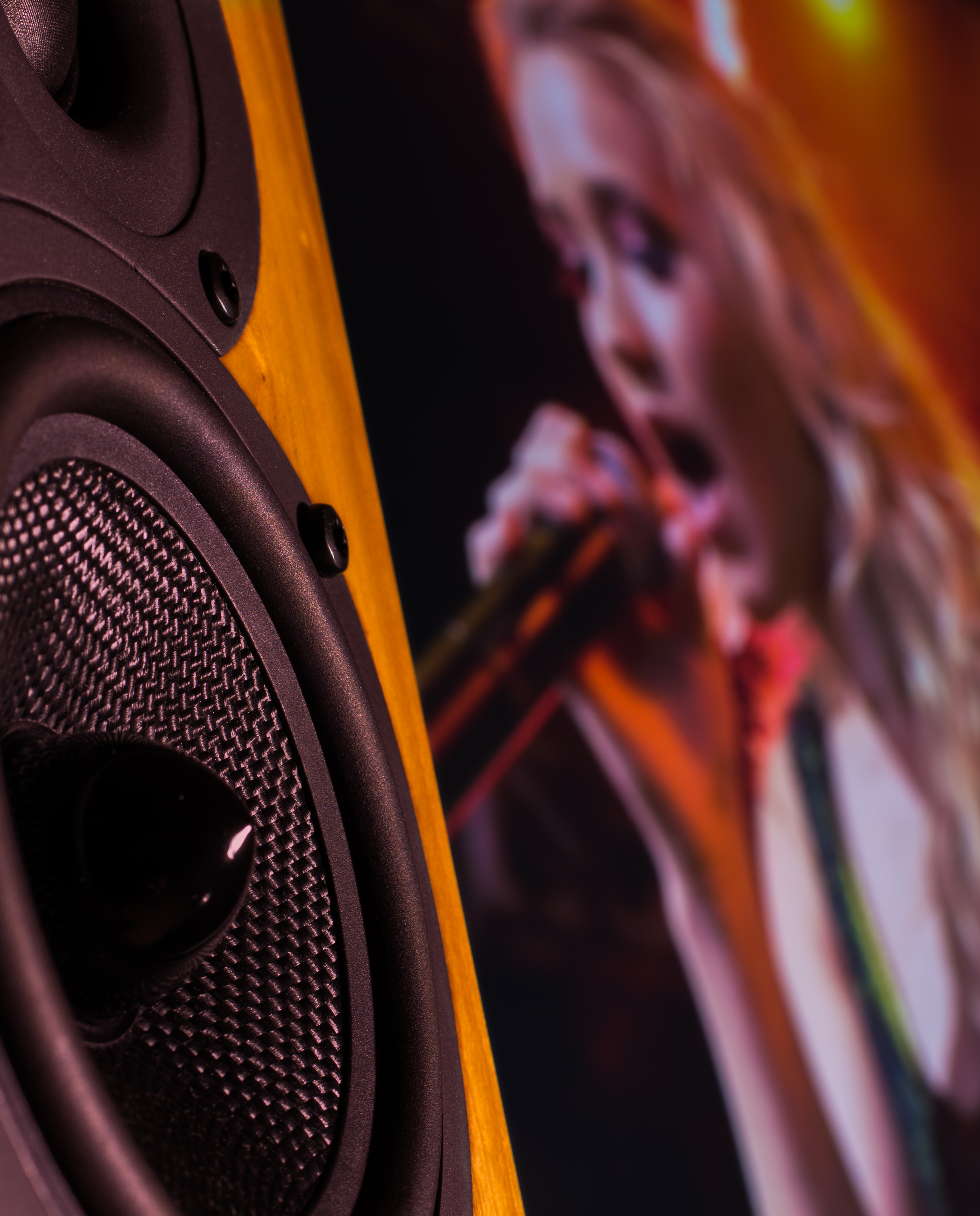 A home cinema satellite speaker provides high-quality audio for watching a concert on a flat screen television.The singer is Emily Osment in concert May 2010. The loudspeaker is a Quad L-ite satellite. The cabinet has a cherry veneer coated with seven layers of lacquer and polished to a piano-gloss finish. The 100mm base cone is woven Kevlar. The 25mm tweeter is a soft dome.